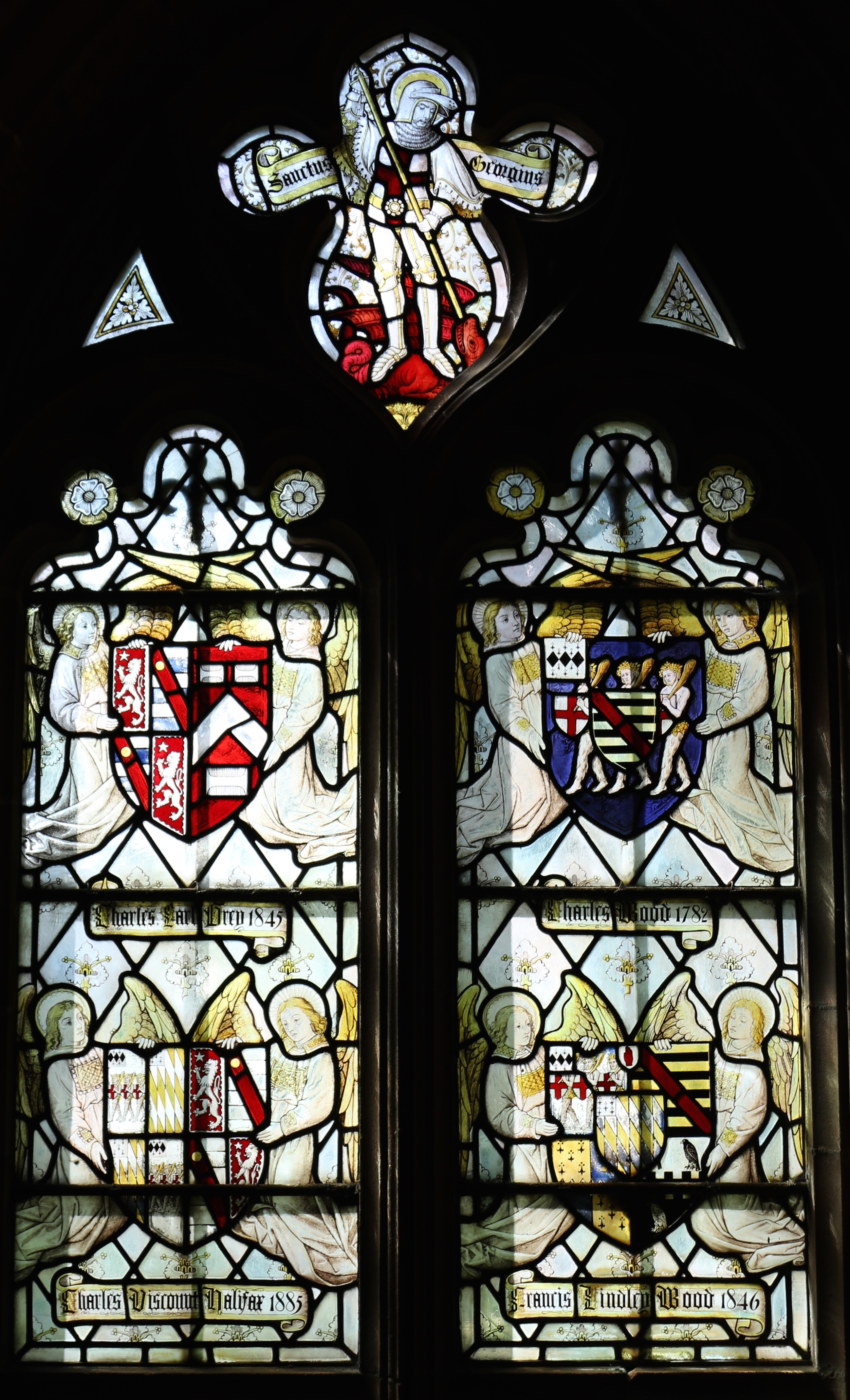 Stained glass window by Burlison and Grylls showing memorials to Grey and Wood family members in the Church of the Holy Angels, Hoar Cross. Top left: Charles Grey, 2nd Earl Grey, KG, PC (13 March 1764 – 17 July 1845), known as Viscount Howick between 1806 and 1807, was Prime Minister of the United Kingdom from November 1830 to July 1834. Married Hon. Mary Elizabeth Ponsonby (1776–1861), only daughter of William Ponsonby, 1st Baron Ponsonby. Arms of Grey (quarterly of 4) impaling Ponsonby. Bottom left: Charles Wood, 1st Viscount Halifax (d.1885) Top right Charles Wood (d.1782), married Caroline Barker, da & heiress of Thomas Barker of Otley, Yorkshire, England. Wood with inescutcheon of pretence of Barker (Barry of ten or and sable over all a bend gules) Bottom right: Sir Francis Lindley Wood, 2nd Baronet (d.1846), who married Anne Buck, daughter and heiress of Samuel Buck; father of Charles Wood, 1st Viscount Halifax; Wood of 4 quarters with inescutcheon of pretence for Buck (Lozengy barry of five or and argent ? as shown here